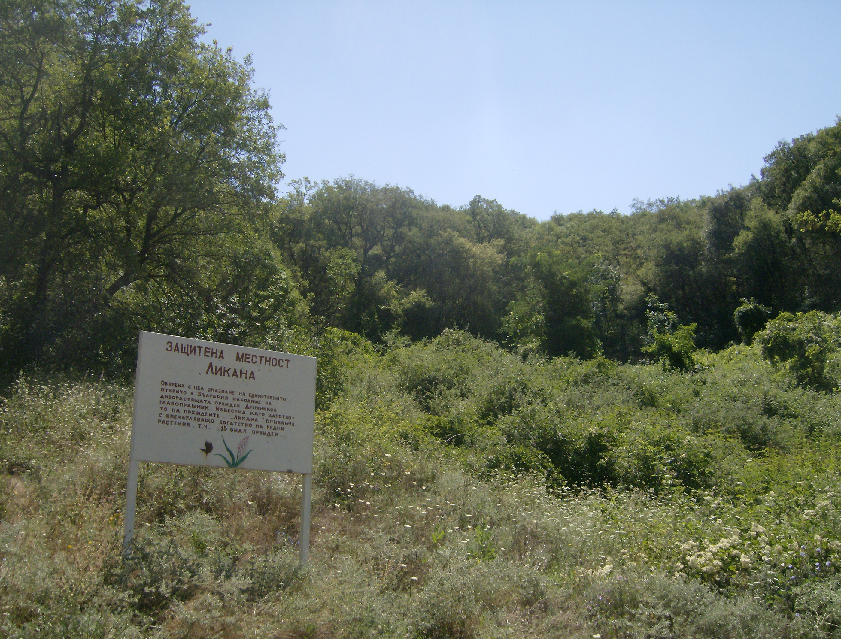 Likana